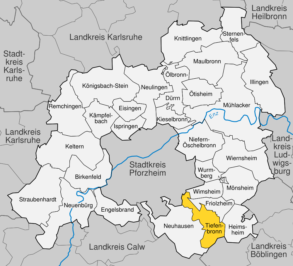 position of Tiefenbronn within distict of Enzkreis, Baden-Württemberg, Germany